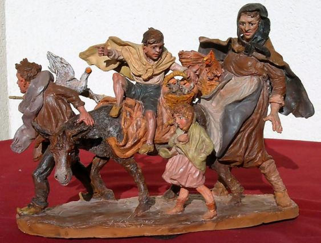 Work of the catalonian sculptor Josep Traité